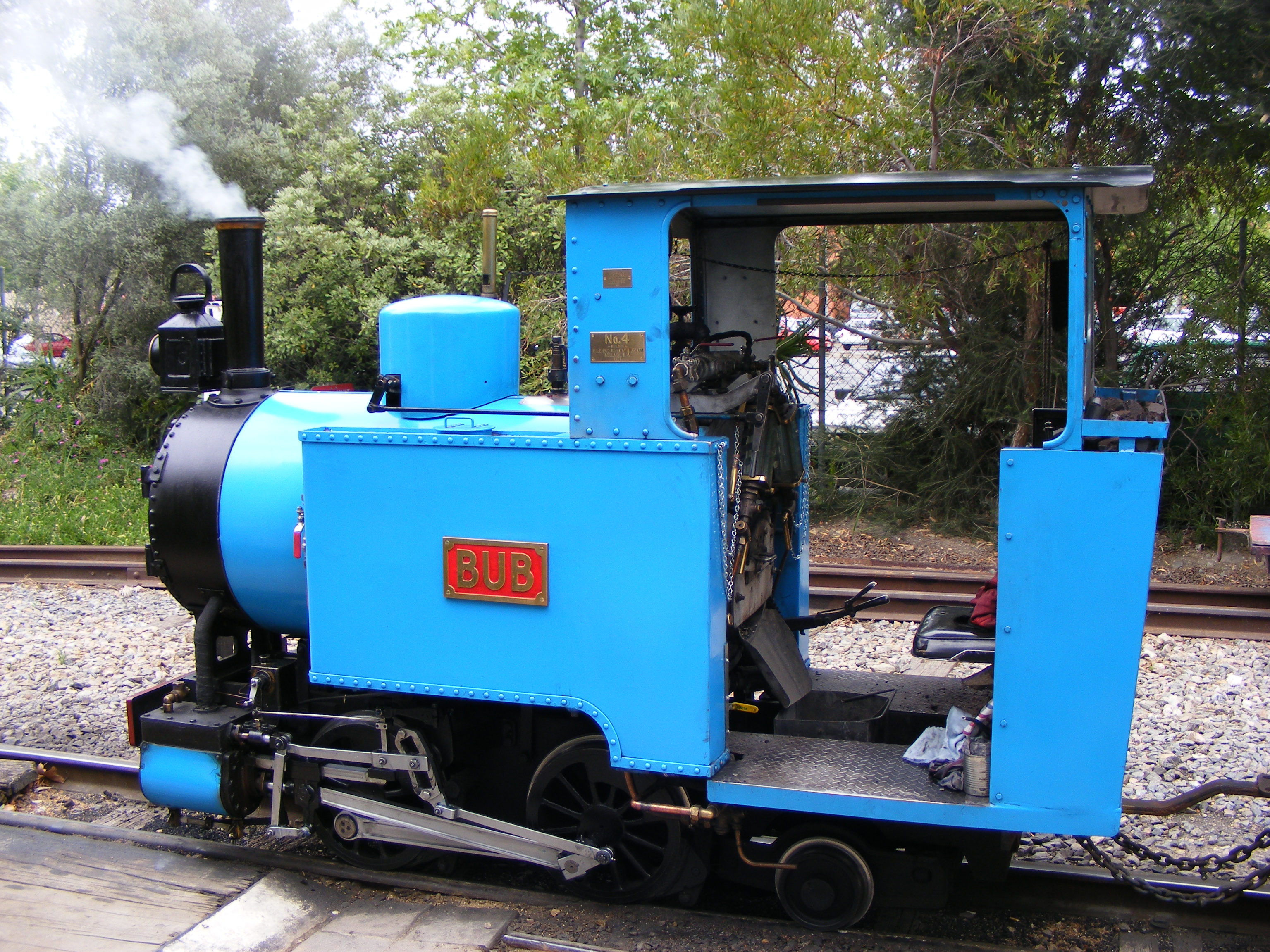 "Bub" the 457mm gauge miniature steam engine. Used to pull tourist carriages at the national rail museum in Port Adelaide, Adelaide, South Australia